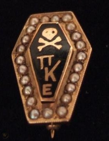 Аҧсшәа: society badges